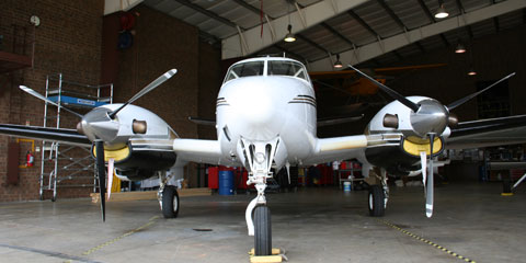 A King Air in the JAARS Hanger.